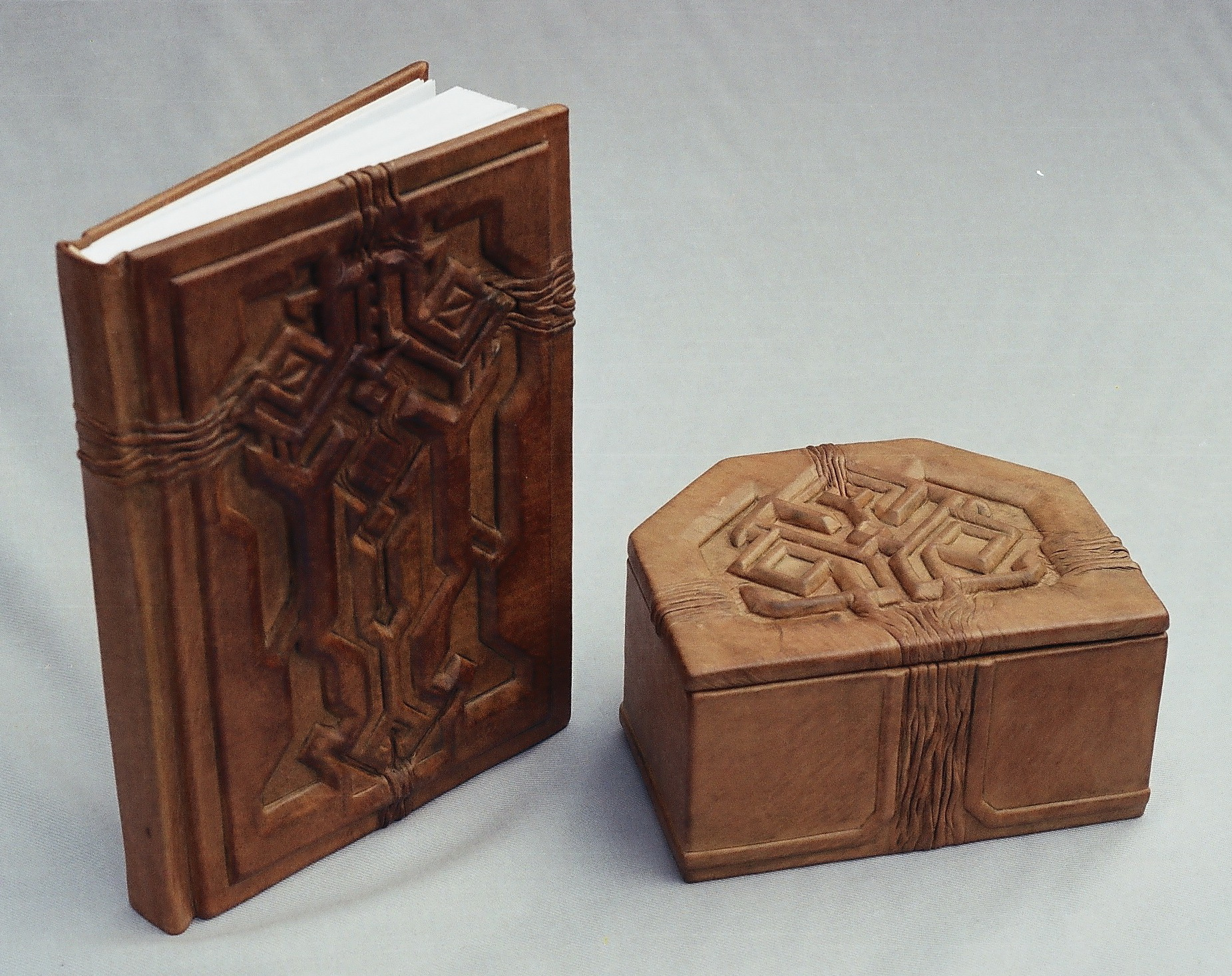 Book and small box